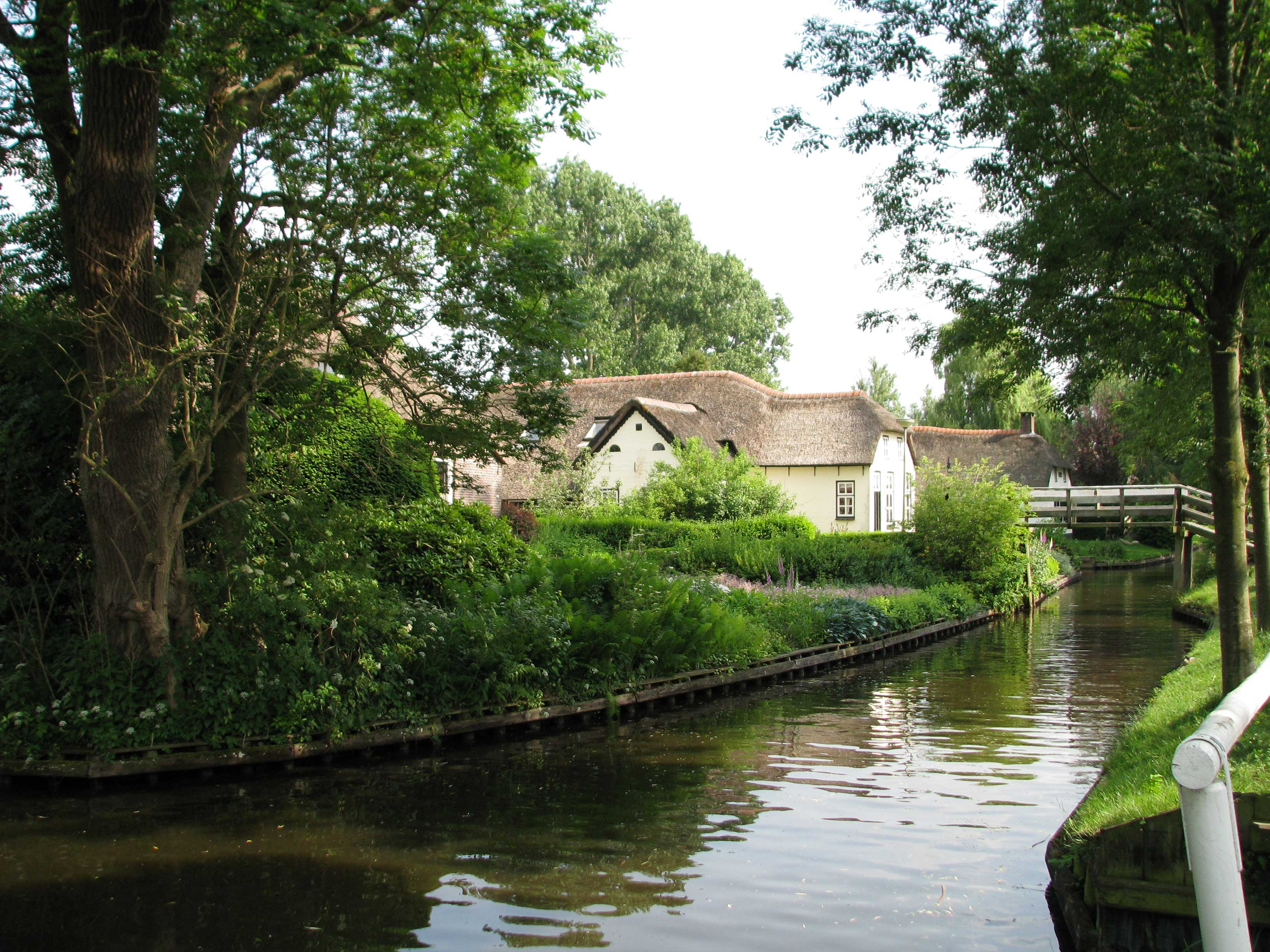 Giethoorn, Netherlands